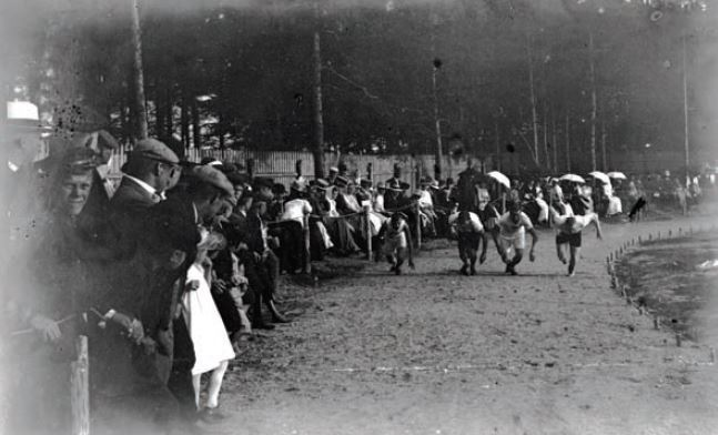 Athletics in Tiilimäki stadium, Pori, Finland, 1910s.